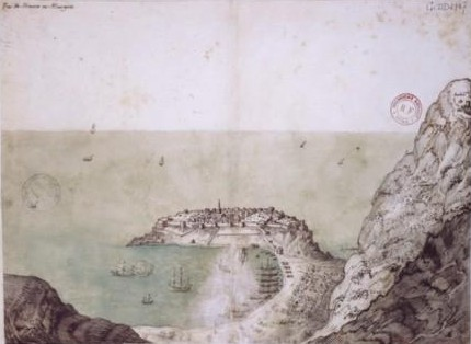 View of Monaco